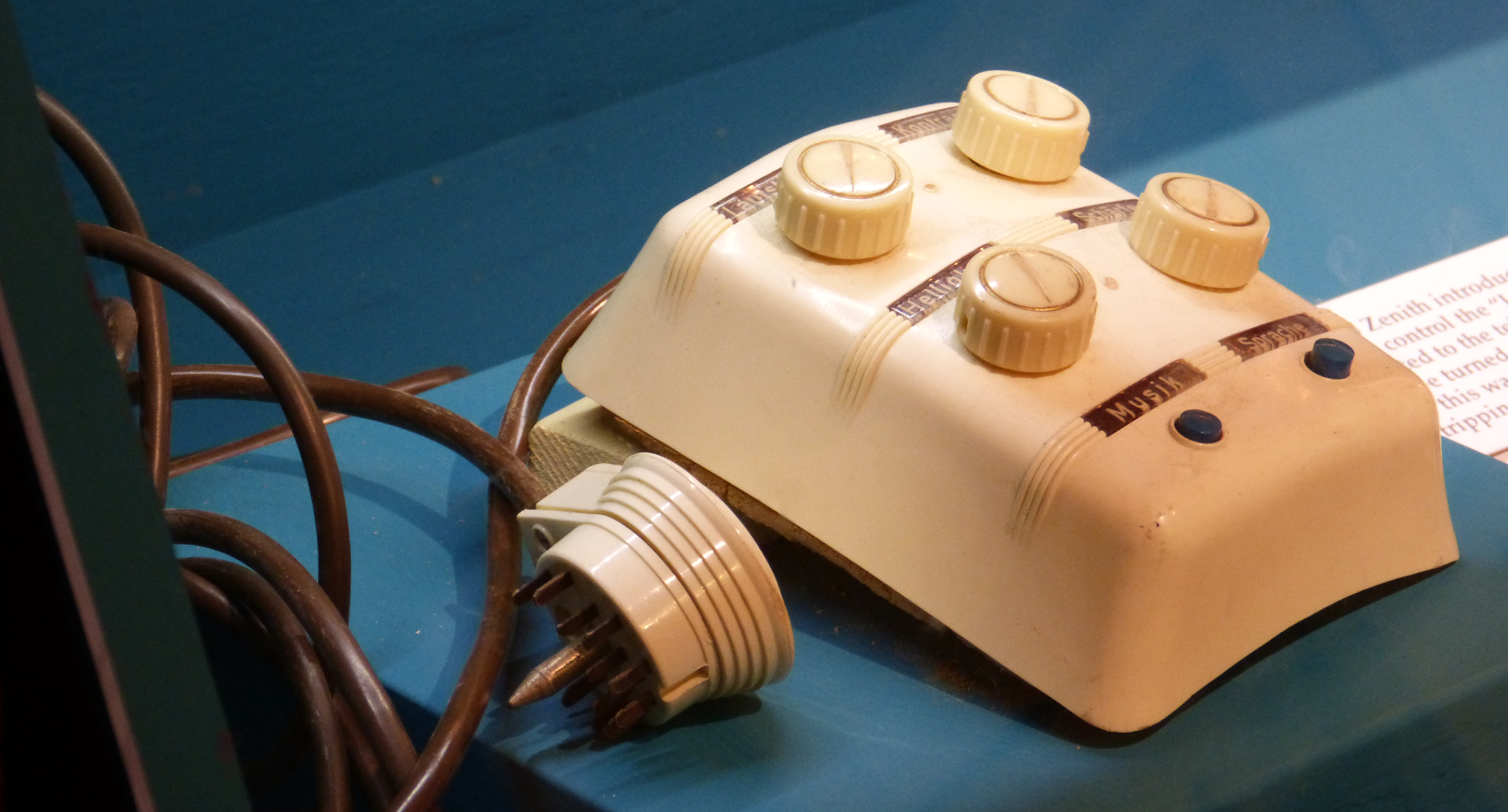 A photo of a SABA TV remote control with an attached cord. This photo was taken during a visit to the Museum of American Heritage where the TV remote was on display. The Early Television Museum shows a similar remote for the SABA P 1026 H TV set which was of German origin and which dated back to 1958 through 1963.